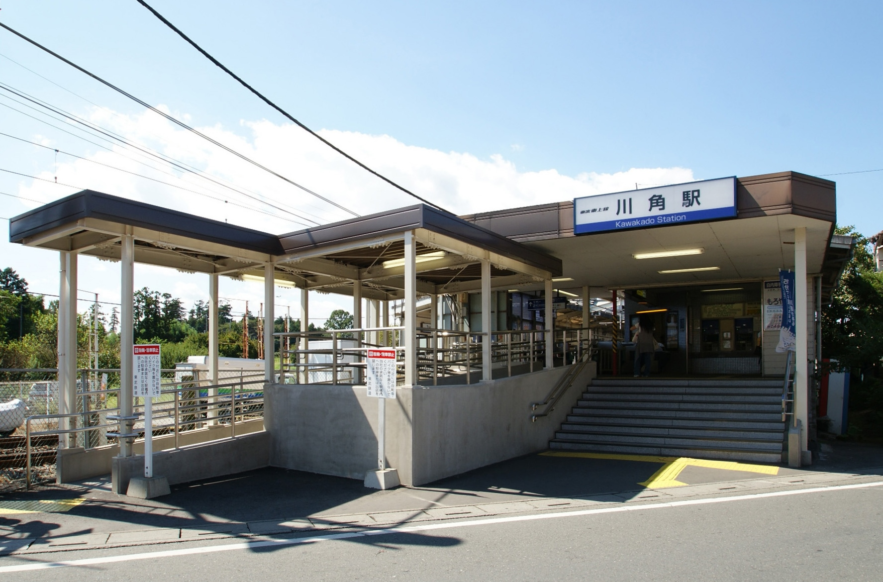 Kawakado Station on the Tobu Ogose Line